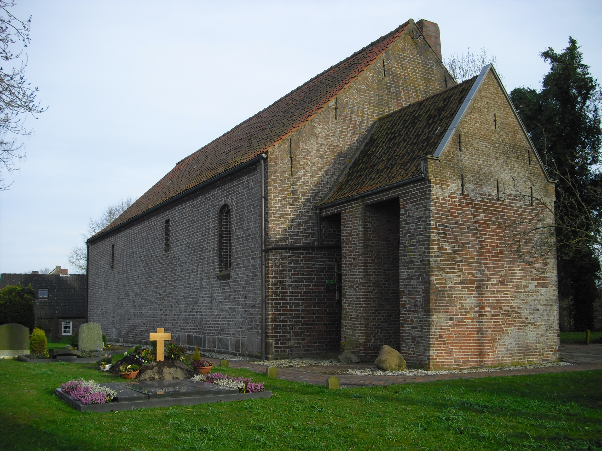 Lutheran Church of Westrum (north). Westrum is a village in the northwestern part of Germany, Wangerland, district of Friesland